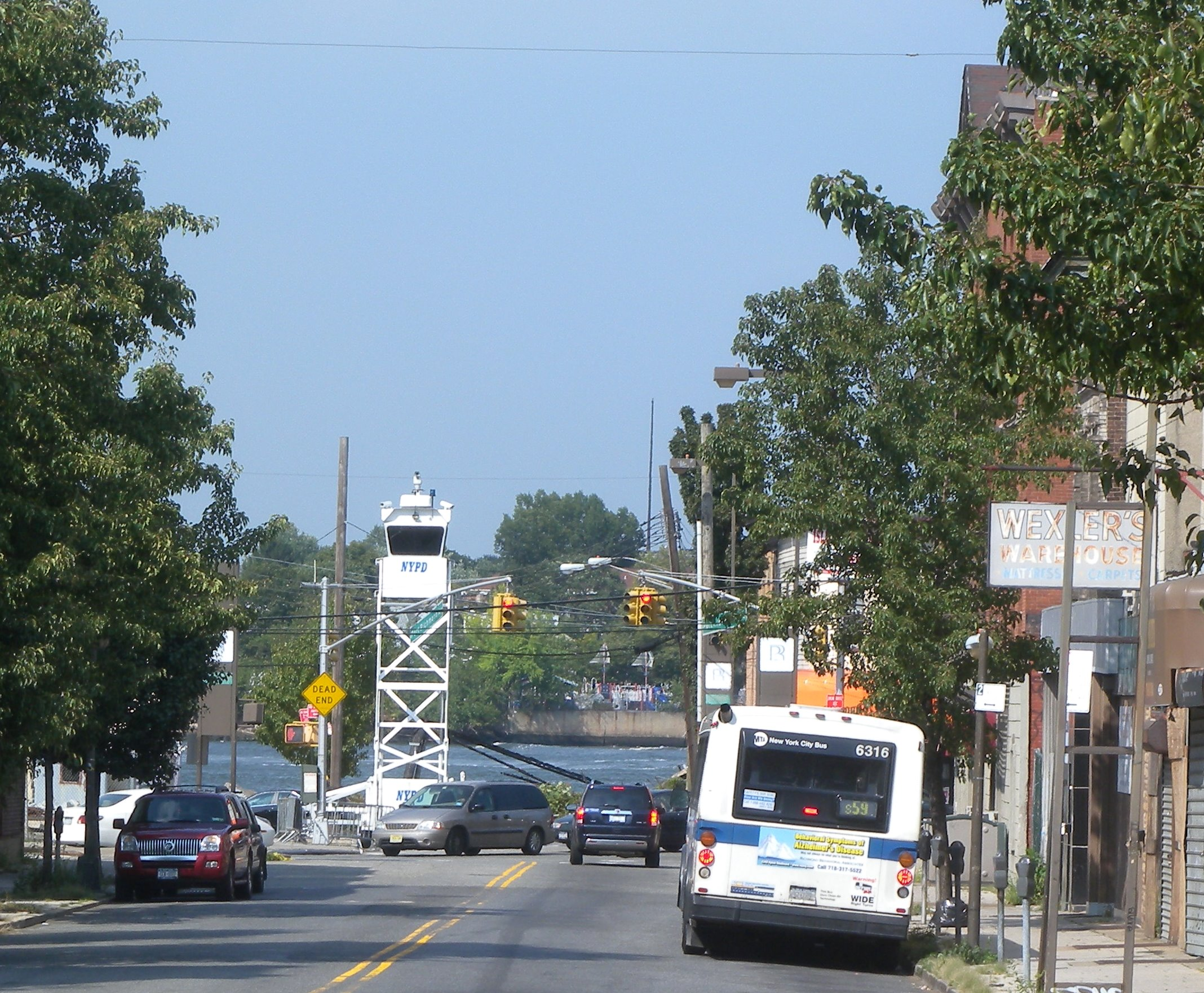 Looking north, full zoom, along Port Richmond Avenue as police department's portable tower looks down on S59 bus, during a saturation effort following incidents of ethnic violence.